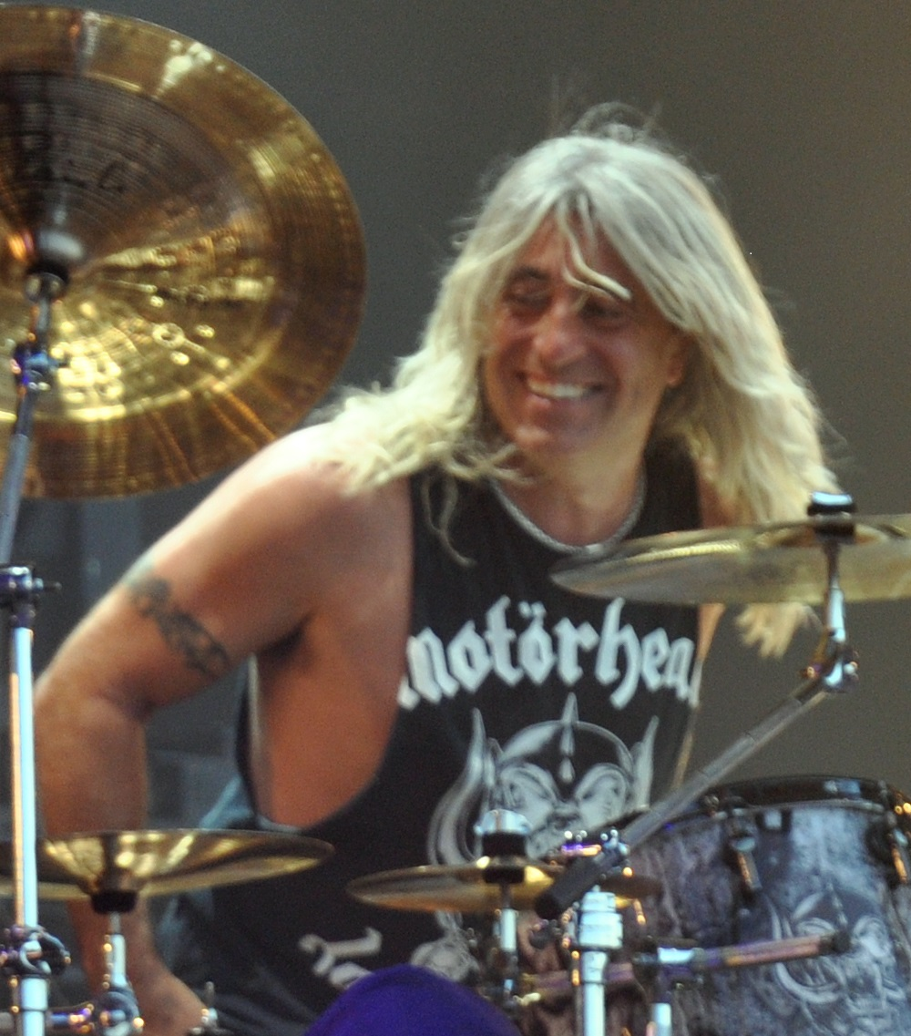 Cropped from File:Phil Campbell and Mikkey Dee of Motörhead at Wacken Open Air 2013 02.jpg. Specially to add to the es.Wikipedia Phil Taylor article.